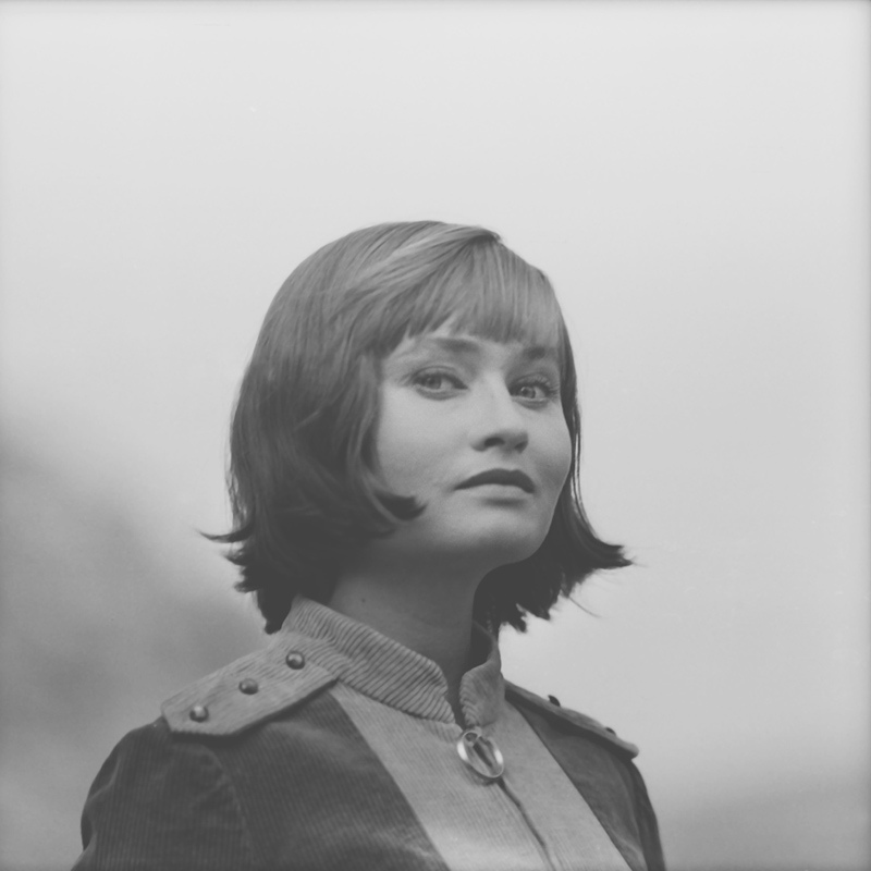 Dina Cocea – the Moldavian actress of theater and cinema.